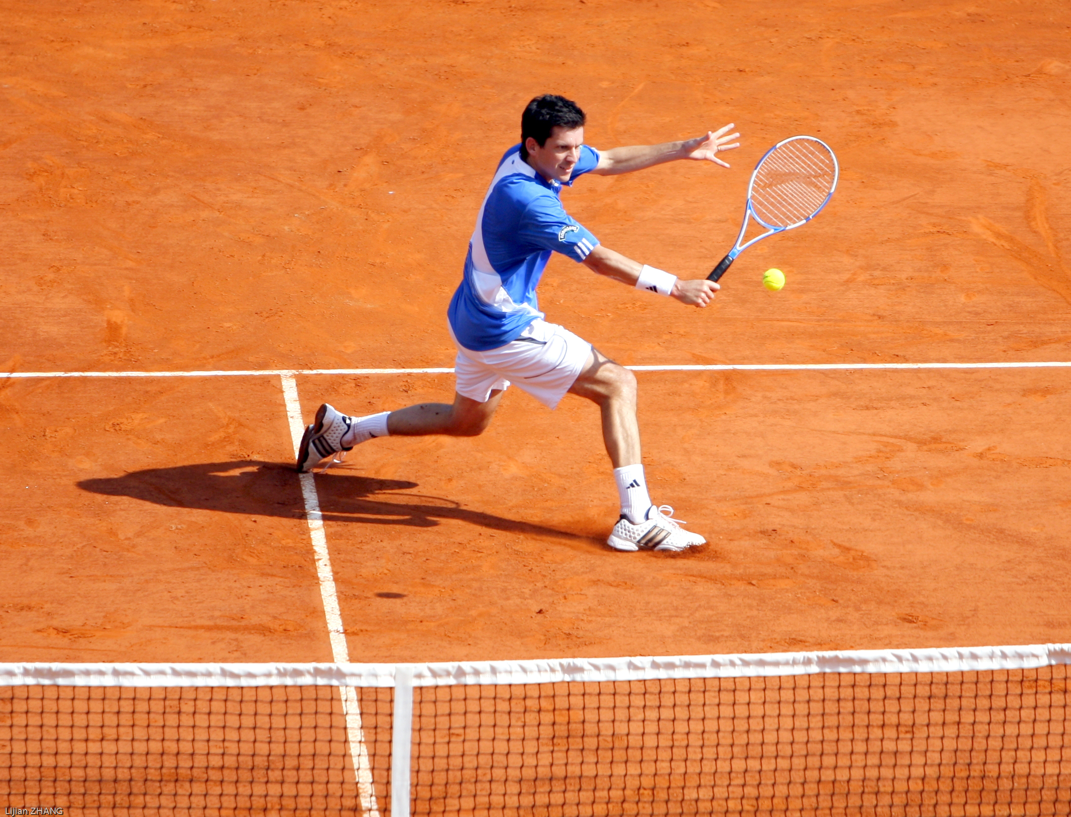 Tim Henman, Master Series Monte Carlo 2007